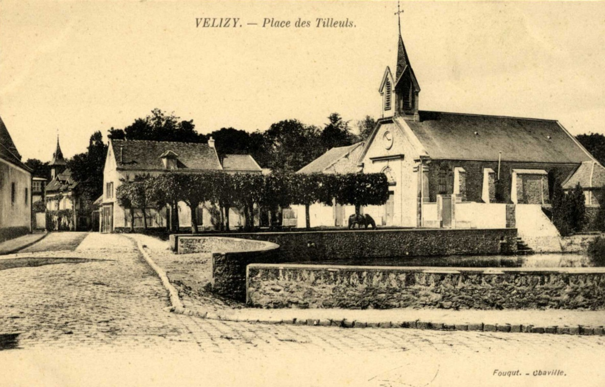 Vélizy-Villacoublay au début du XXème siècle